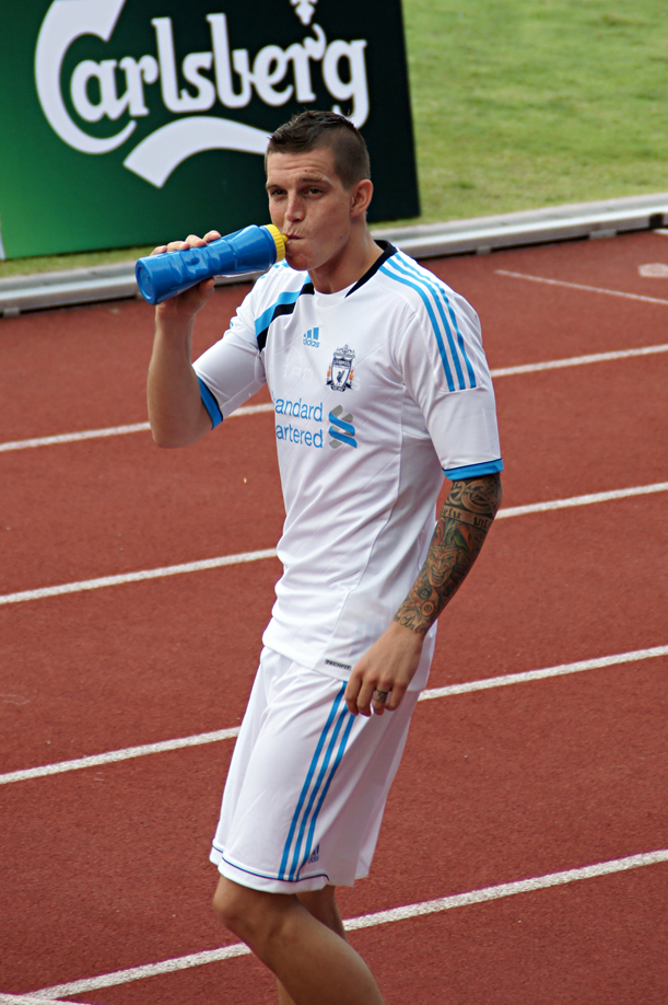 Danish football player, Daniel Agger, during Liverpool FC pre-season training in Singapore